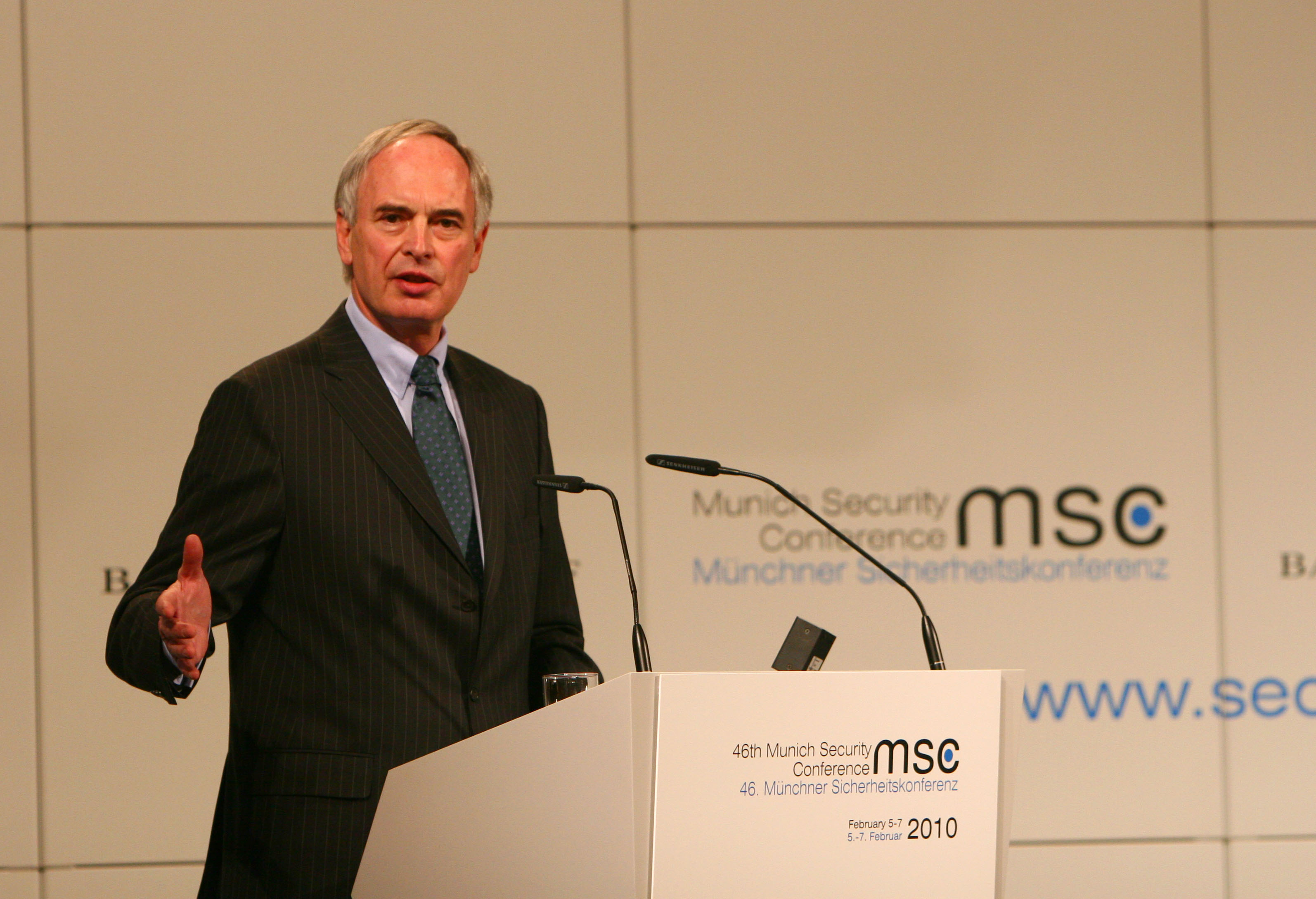 46th Munich Security Conference 2010: Prof. Dr.-Ing. Hans-Peter Keitel, President, Federation of German Industries.